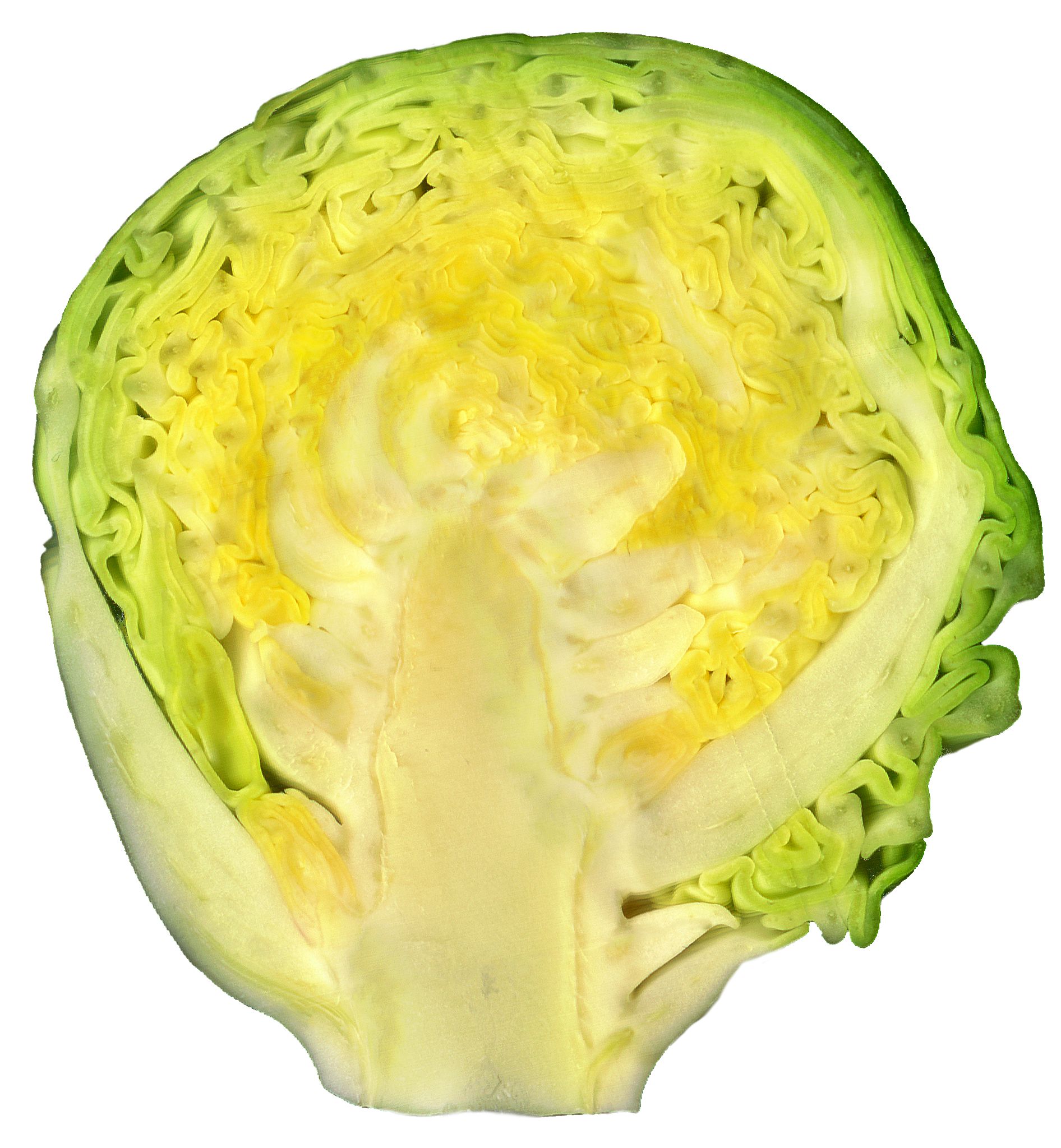 Scan of a Brussel sprout